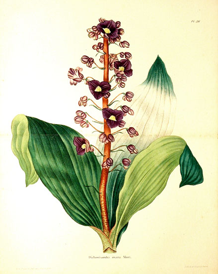 Commelinaceae - Dichorisandra aubletiana - Dichorisandra ovata